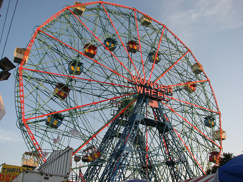 Photograph of the Wonder Wheel located on Coney Island